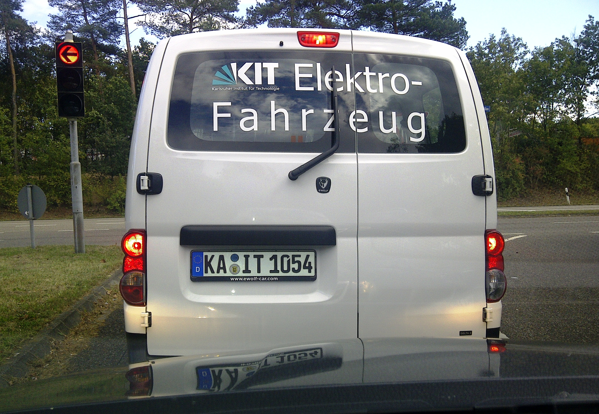 Electric Van from E-Wolf at Karlsruhe Institute of Technology (KIT), Germany